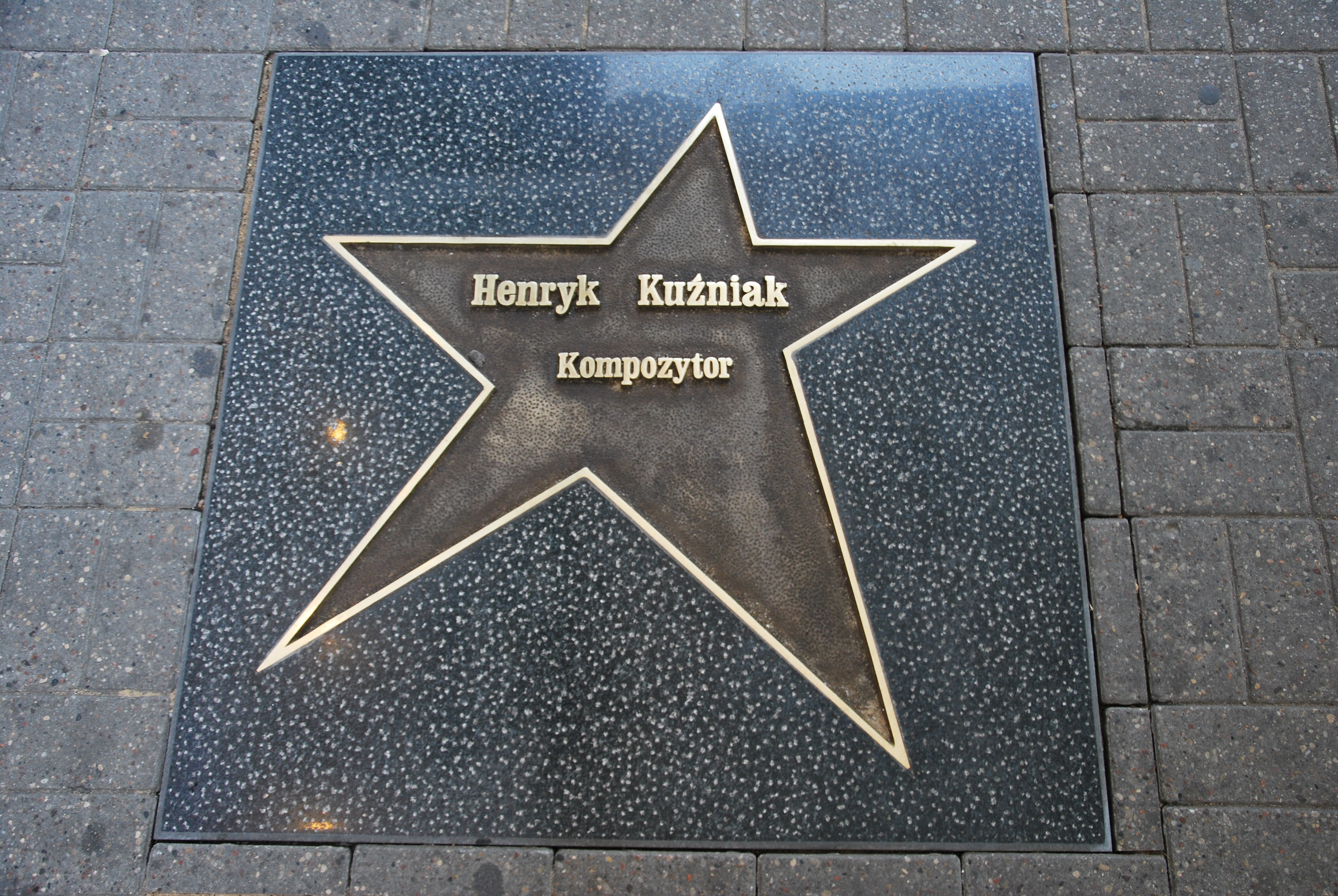 Henryk Kuźniak's star in Łódź Walk of Fame